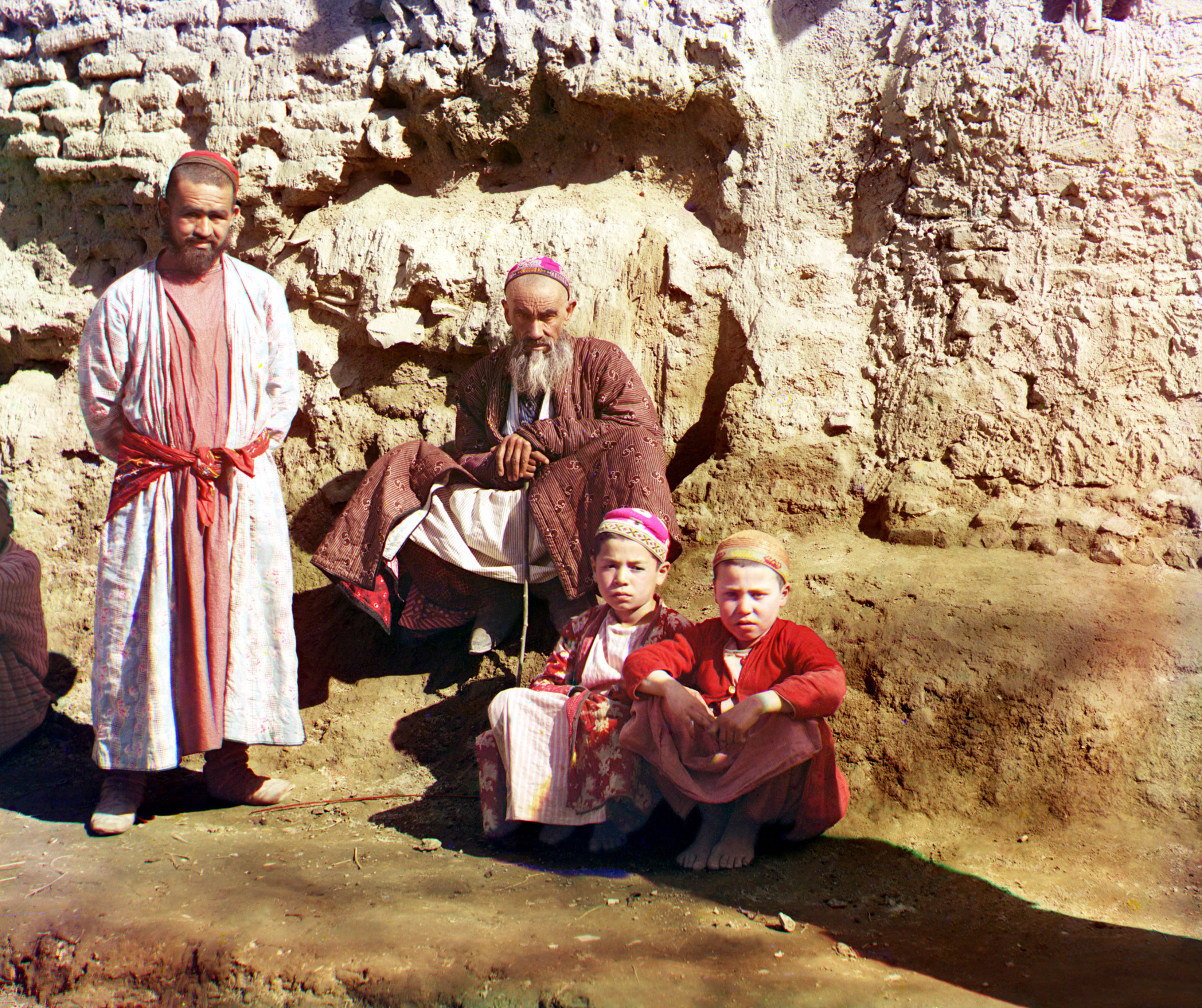 Two Sart men and two Sart boys posed outside, in front of wall.